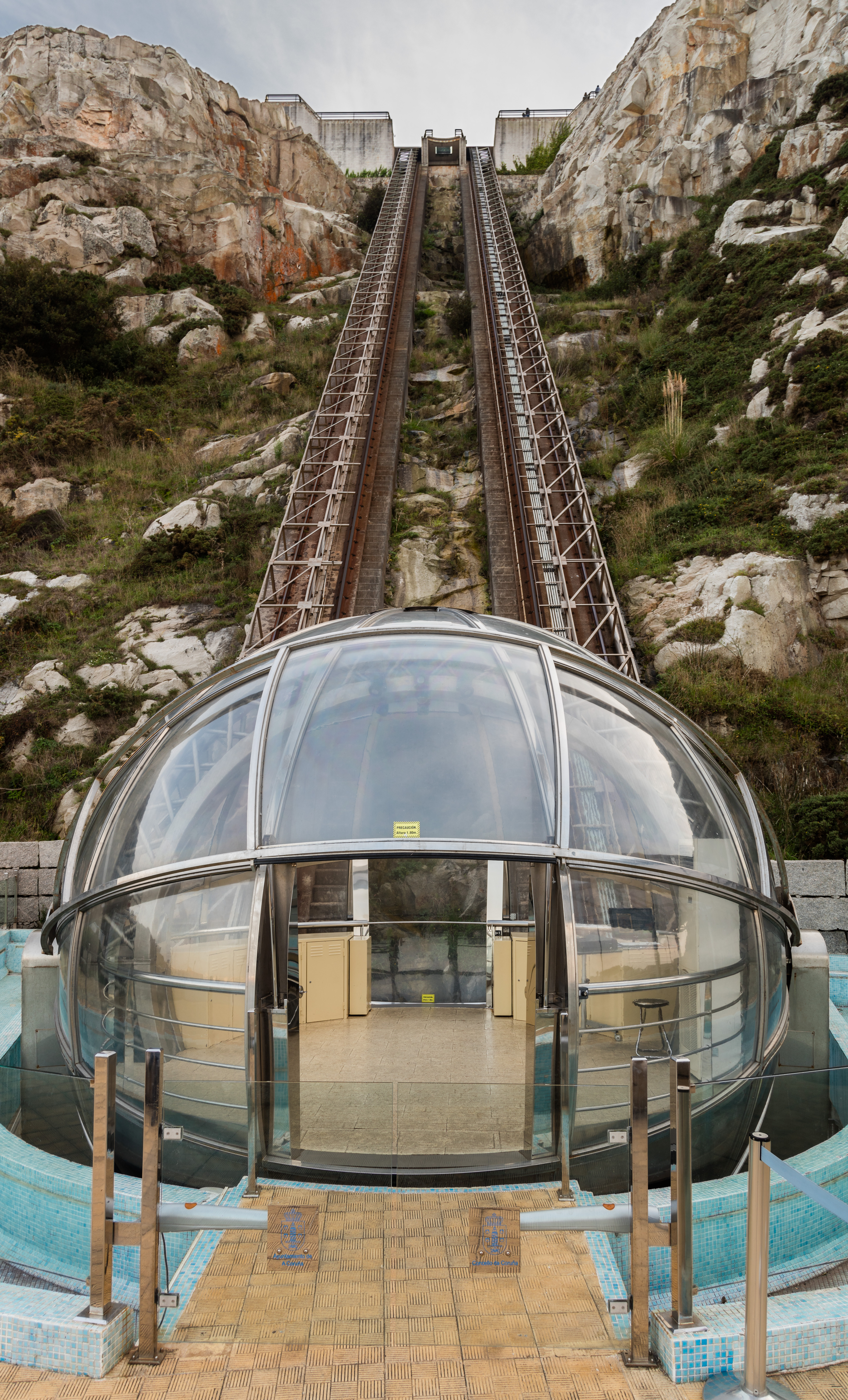 Panoramic lift to St Peter's Hill, La Coruña, Spain. Its track is 100 m long, and climbs 63 m. The lift has operated since 2007.